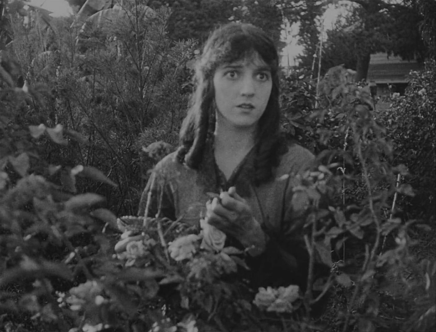 Scene from the movie Birth of a Nation. 1915.